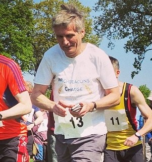 The Venerable John Ashe (centre), Archdeacon of Lynn, taking part in a race